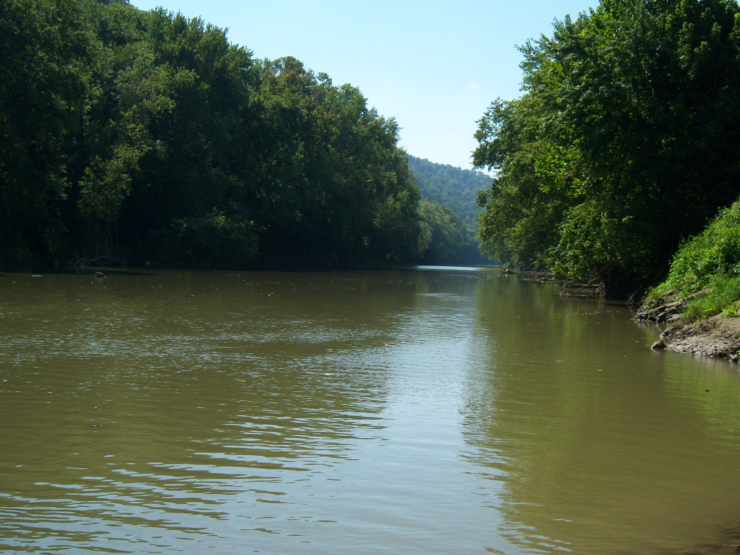 The Levisa Fork River in Paintsville, as viewed from the Paintsville boat ramp.